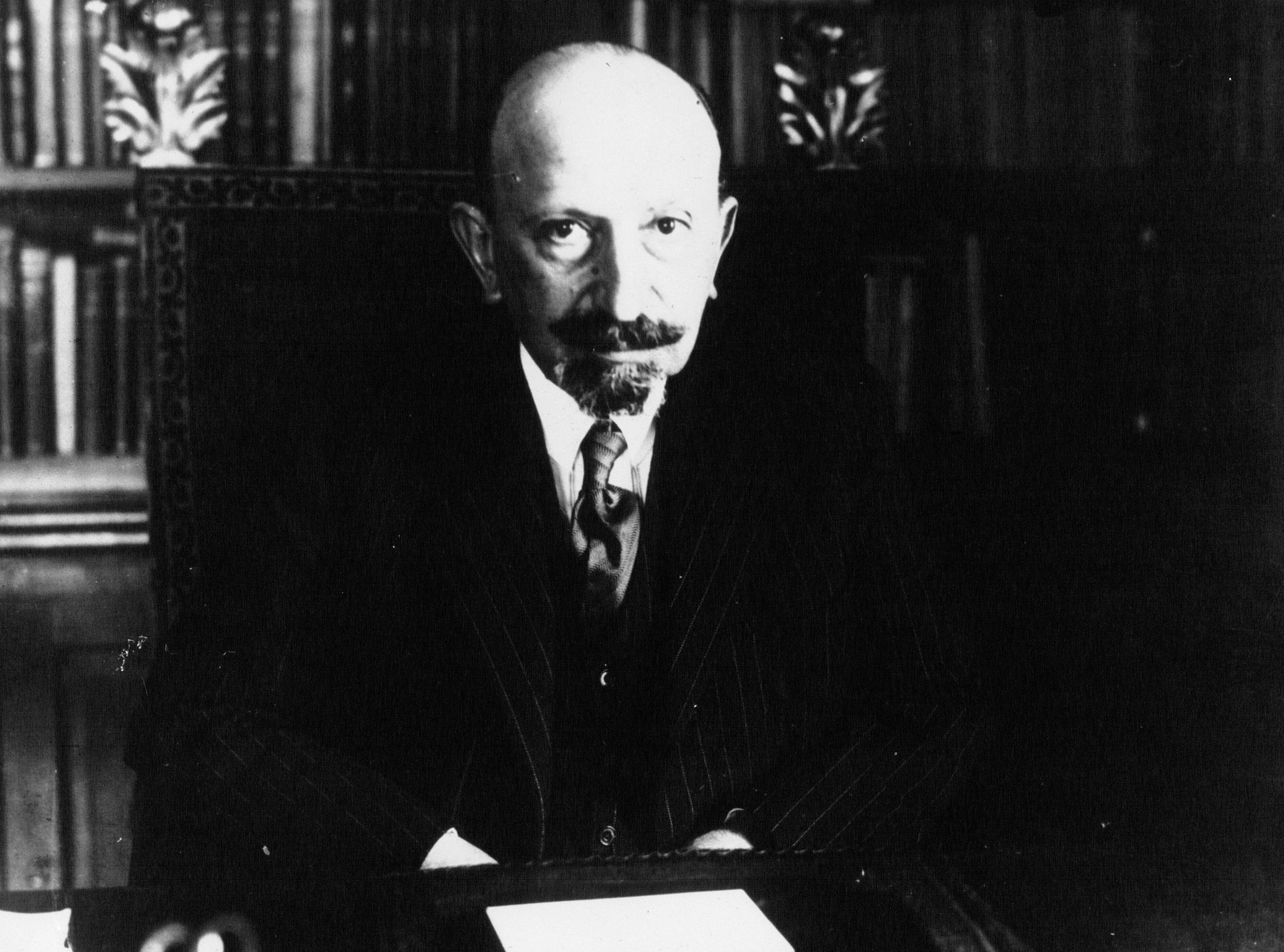 Dimitrios Maximos, Chairman of the National Bank of Greece in the 1920s, later Foreign Minister and Prime Minister of Greece